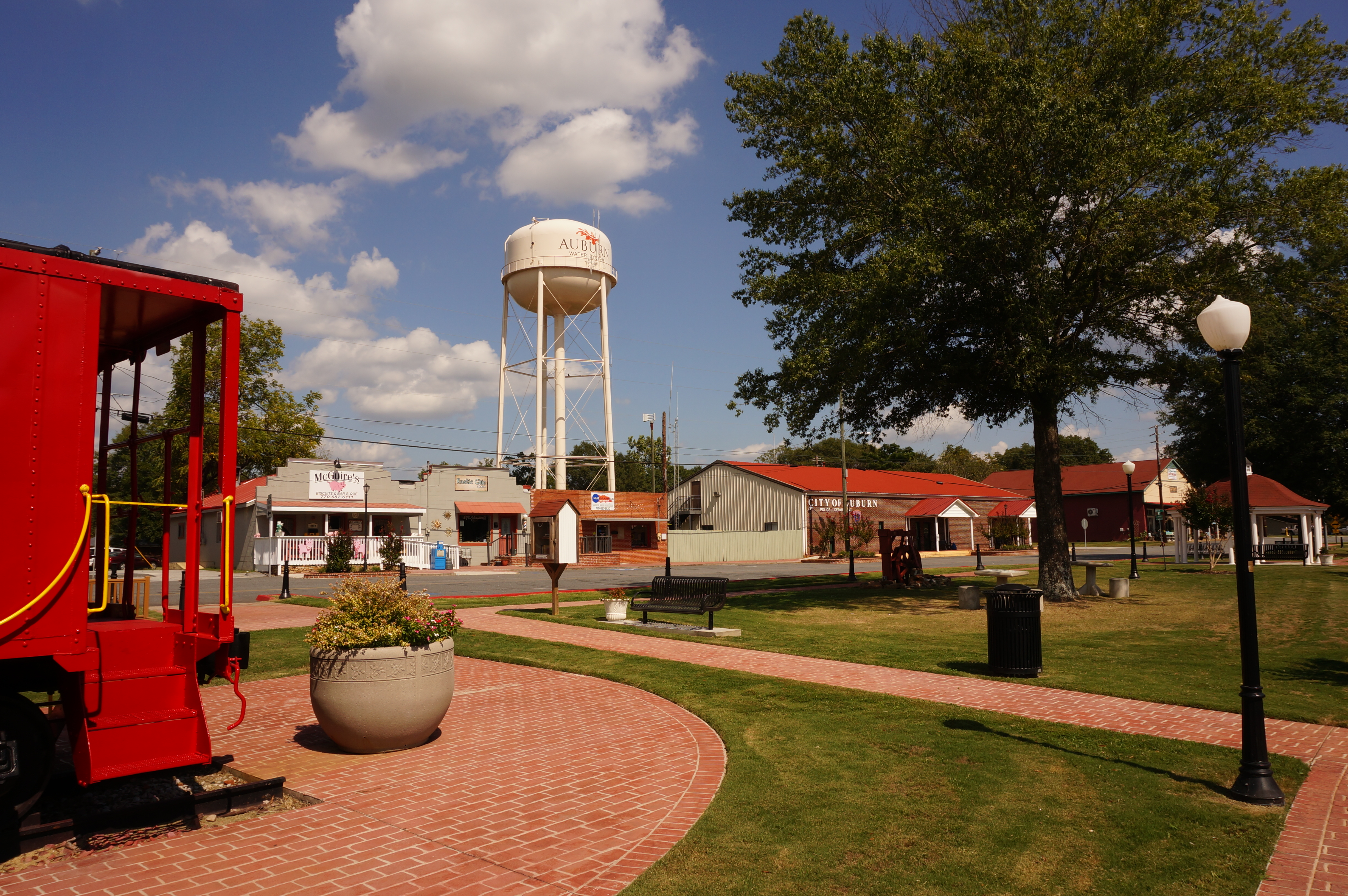 Auburn Historic District, Roughly bounded by 3rd Ave., 6th St., 6th Ave., and Main St. Auburn